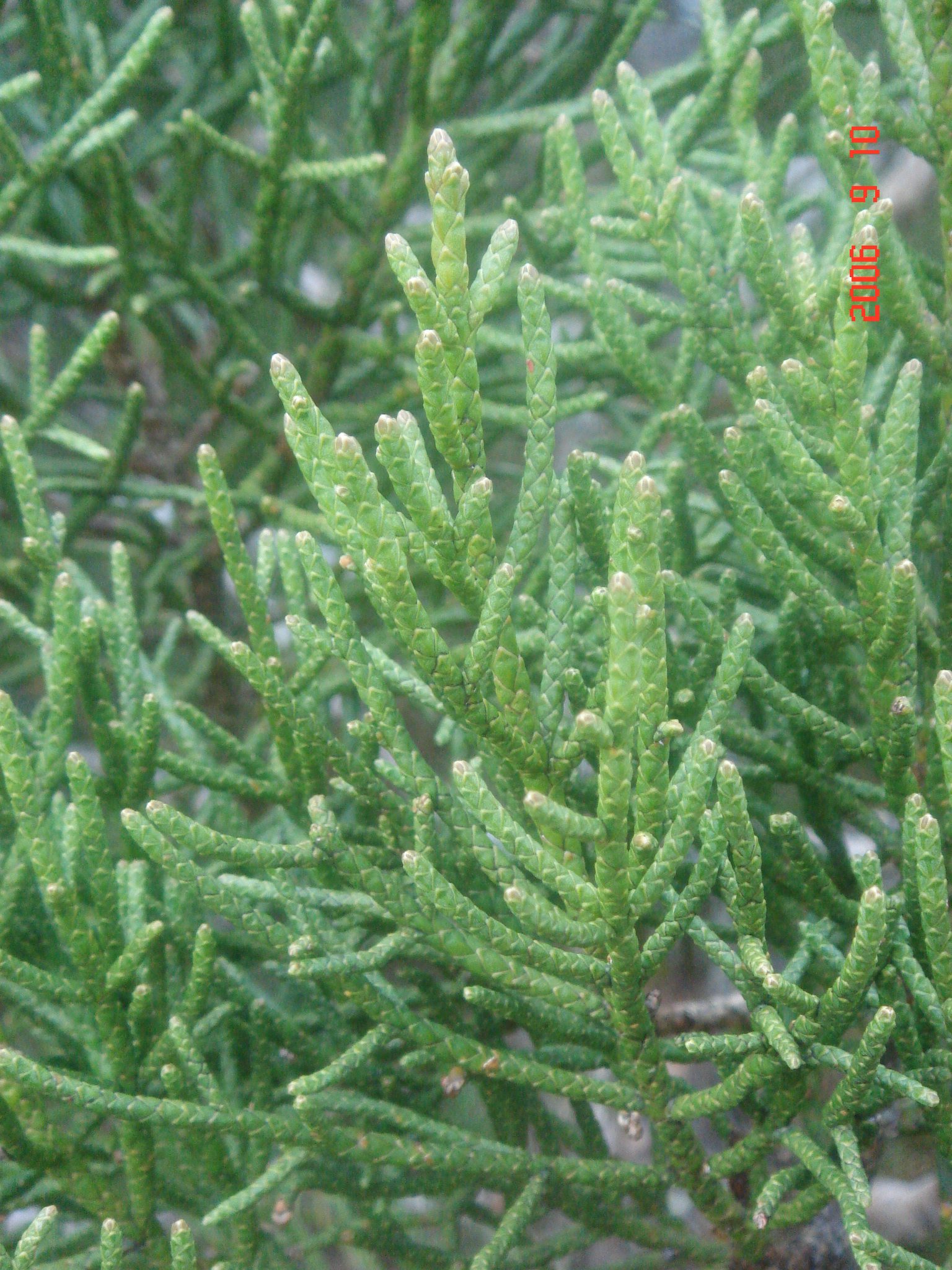 Athrotaxus cuppresoides, Cradle Mountain NP, Tasmania